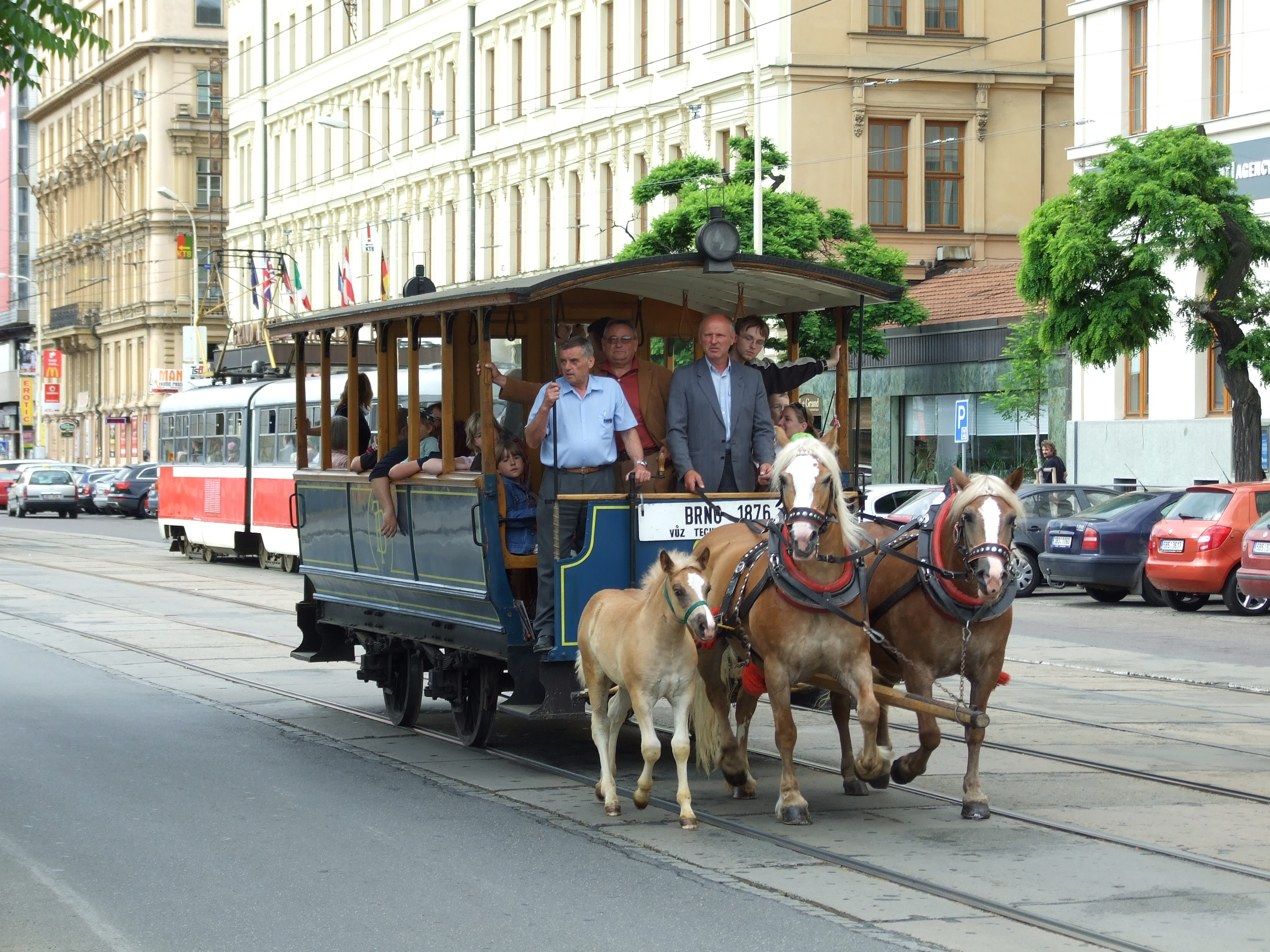 Horse tram in Brno heading from main train station (Hlavní nádraží) to Malinovské náměstí square.